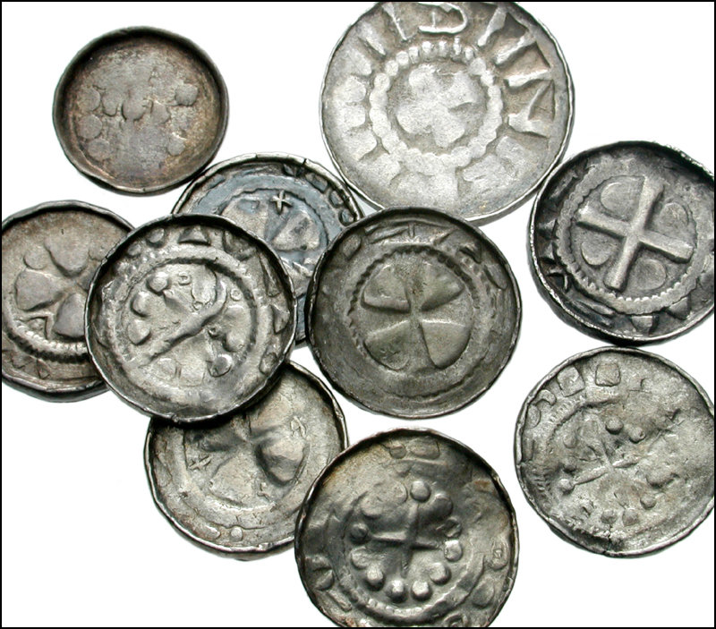 WORLD. GERMANY, Saxony. Lot of ten AR “Wendenpfennig”. “Holzkirchenpfennig”. Magdeburg? Church / Cross. Gumowski 40 // “Balkenkreuzpfennig”. Naumburg mint? Cross with annulets / Cross. Gumowski 53 (2 coins) // “Kleeblattkreuzpfennig”. Meissen mint? Cross pommée / Cross. Gumowski 54 (5 coins) // “Krummstabpfennig”. Uncertain mint. Bishop’s crozier / Cross. Gumowski 59 (2 coins). Average Fine, typical weak strikes. LOT SOLD AS IS, NO RETURNS. 10 coins in lot. The early pfennige of Saxony have seen a number of different attributions over the years. Some were known as “wendenpfennige” from the native Slavic peoples of the eastern Germany and Pomerania and others as “randpfennige” (rim pfennigs) from their up-raised edges and attributed to the early Polish bishoprics and kingdoms. More recent studies have concluded they were civic issues of various eastern cities, with places such as Bremen, Halle-Giebichenstein, Meissen, Merseberg, Naumburg being cited as points of origin.